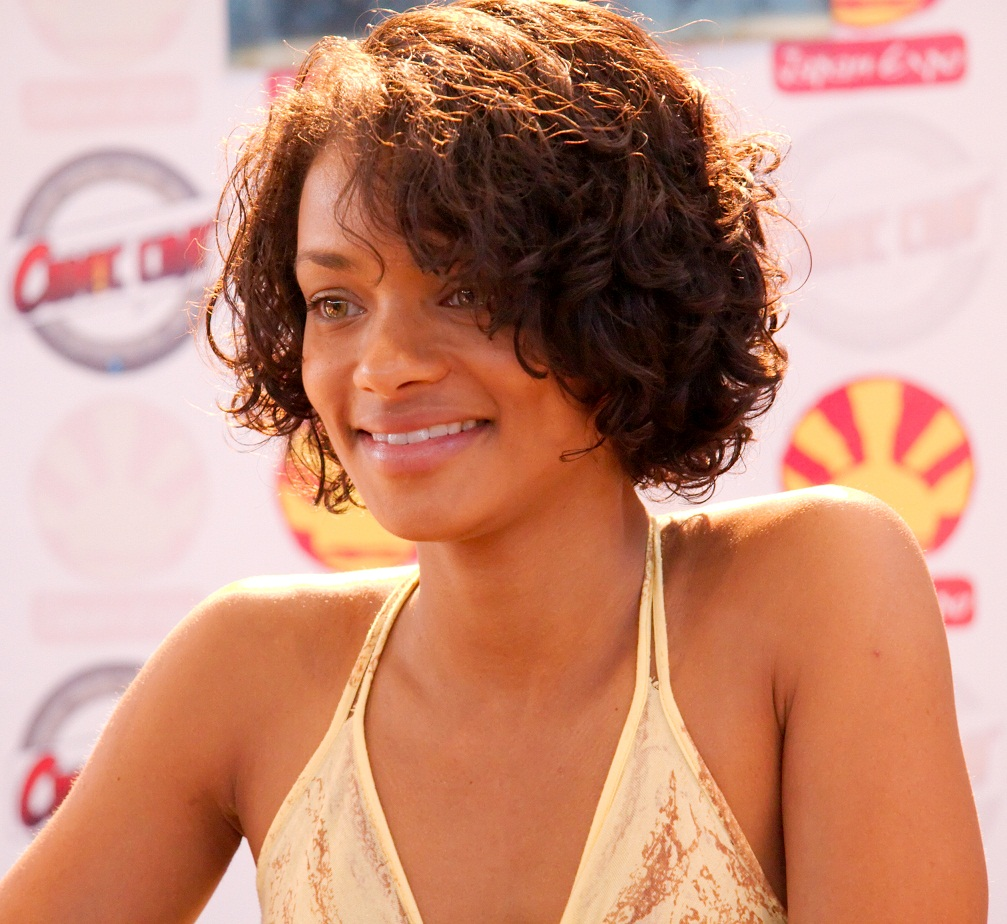 Autograph session with Kandyse McClure at Japan Expo 2009 (Paris, France).